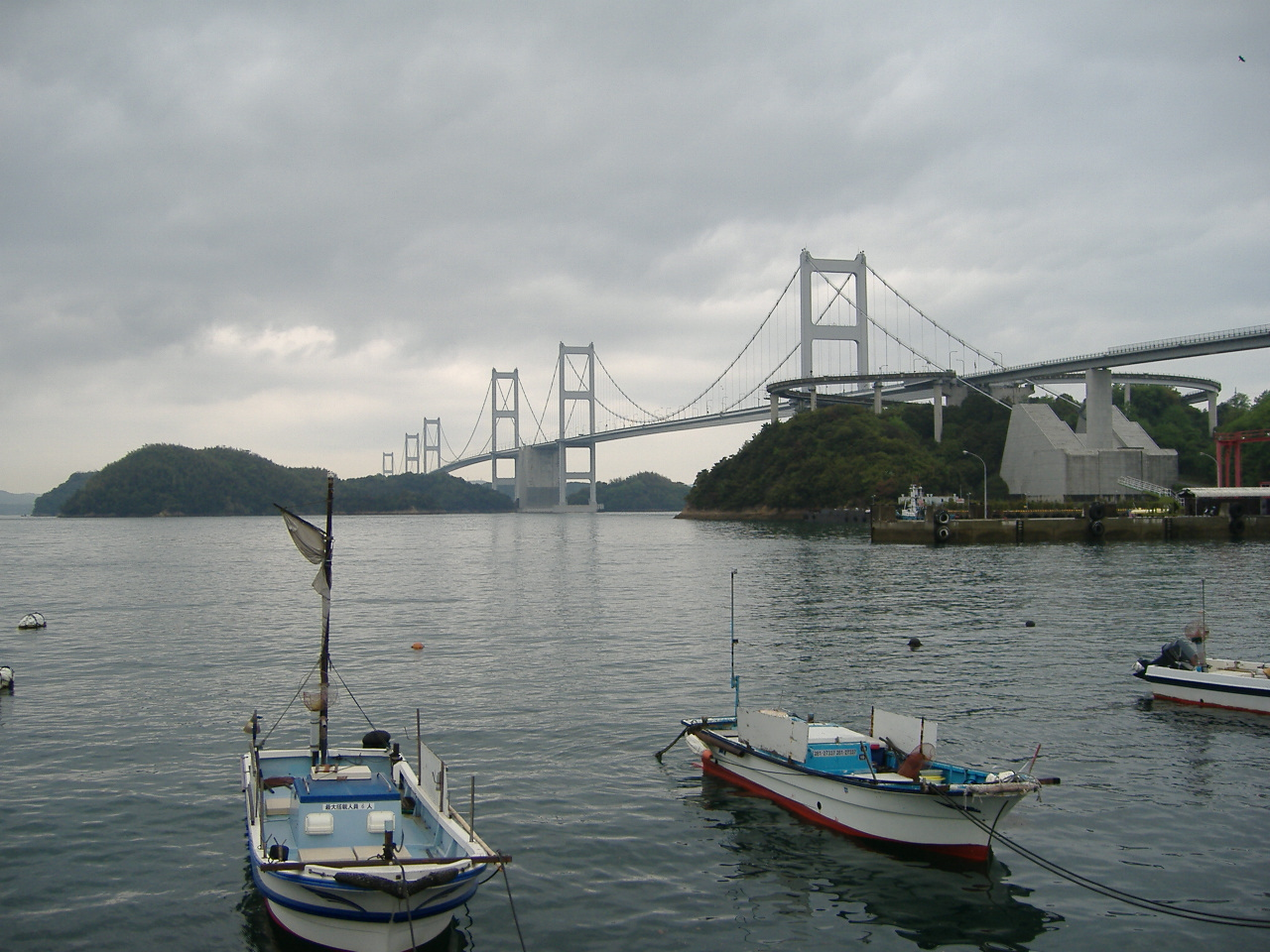 Michinoeki_Yoshiumi-Ikiikikan (Imabari, Japan)